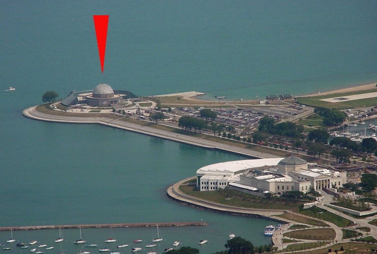 Adler Planetarium, Chicago, Illinois, USA